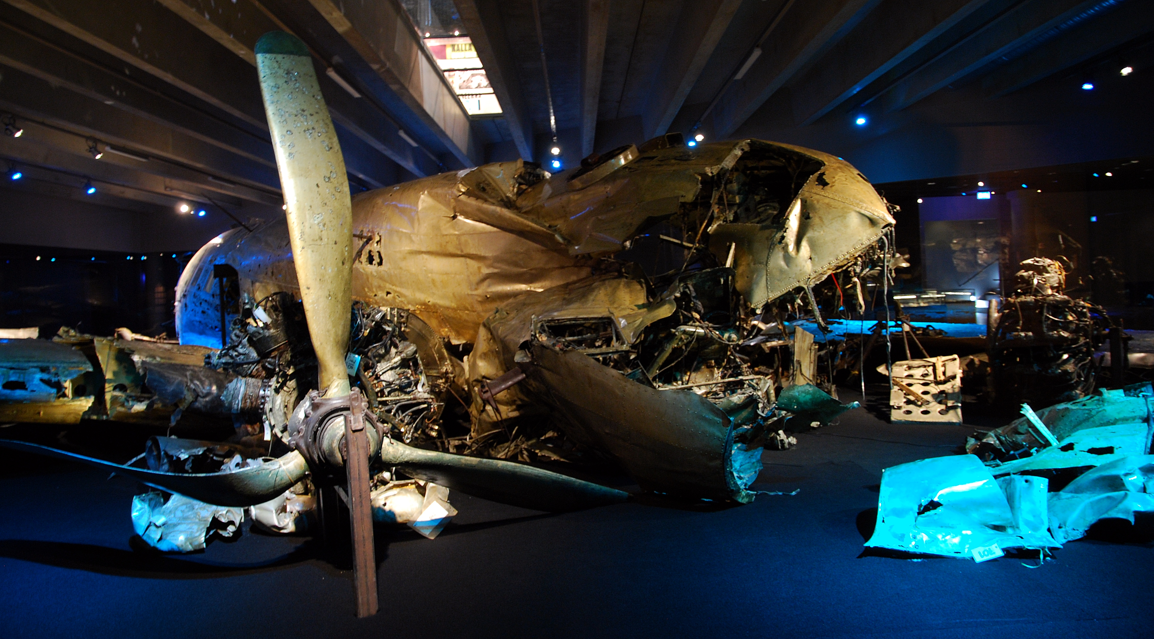 Wreckage of "the DC-3," a Tp 79 aircraft (the Swedish Air Force's designation for the C-47 Skytrain, a military transport variant of the Douglas DC-3) with serial number 79001, at the Swedish Air Force Museum in Linköping, Sweden. Shown here are the remains of the starboard propeller and the front of the aircraft. The unarmed aircraft was carrying a crew of three men from the Air Force and five from the National Defence Radio Establishment on a classified but lawful and routine radio and radar reconnaissance mission over Swedish and international waters when it was shot down on 1952-06-13 at 11:28 CET by a Soviet MiG-15bis fighter jet, piloted by Captain Grigory Osinsky from Tukums air base in Soviet-occupied Latvia under orders from Colonel Fyodor Shinkarenko. A Catalina (Tp 47) search and rescue aircraft sent to look for the DC-3 was also shot down over international waters by Soviet aircraft three days later. No survivors from the DC-3 were found. The Soviet Union officially denied involvement until its dissolution in 1991. The events are known as the Catalina affair. The DC-3 wreckage was found on 2003-06-10 at a depth of 125 meters. The fuselage was salvaged on 2004-03-19 and taken to Muskö naval base for examination and preservation. The remains of four crewmen were identified. The wreckage was moved to the Swedish Air Force Museum on 2009-05-13.